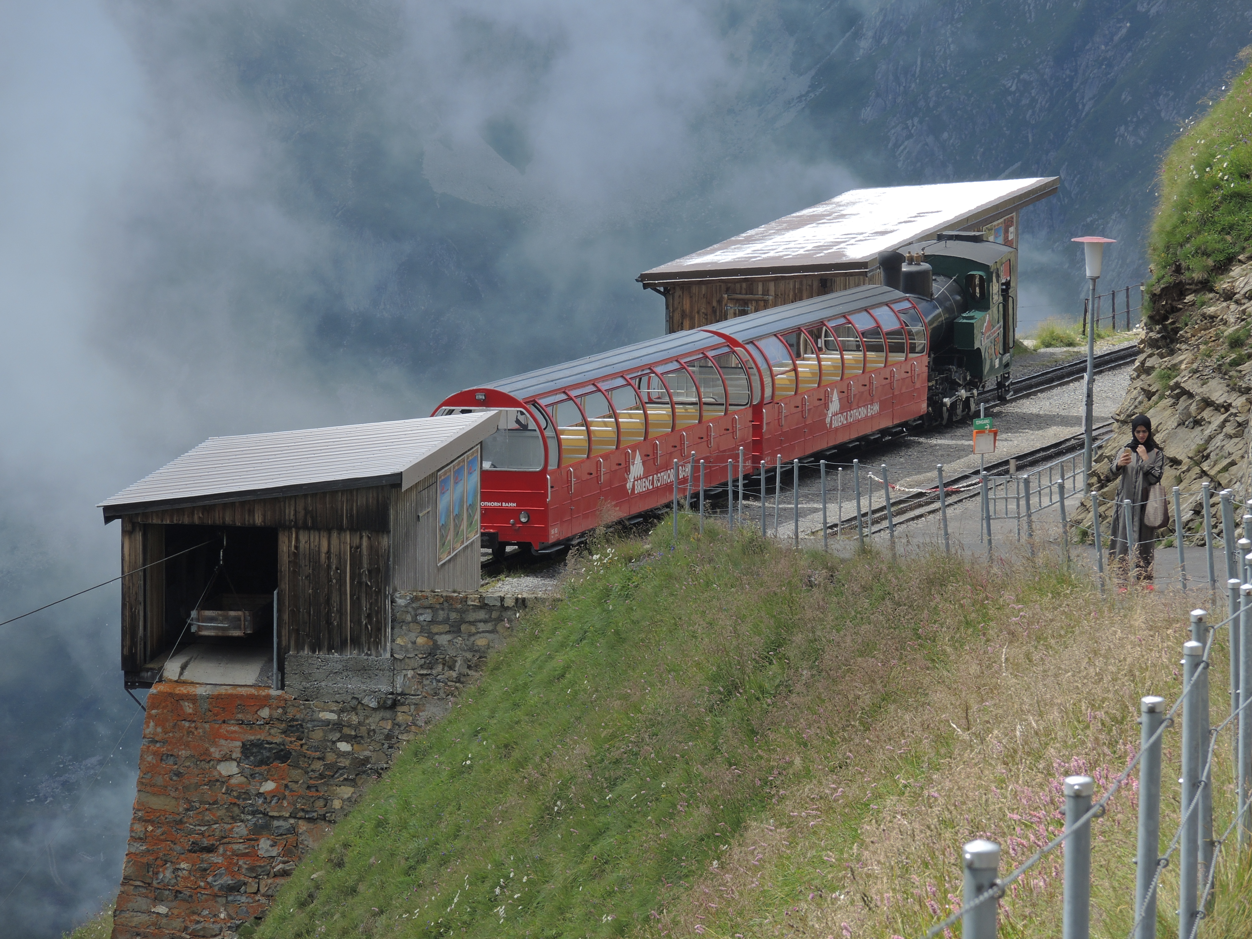 View from Brienz Rothhorn Bahn (BRB) at Rothorn top station in Switzerland